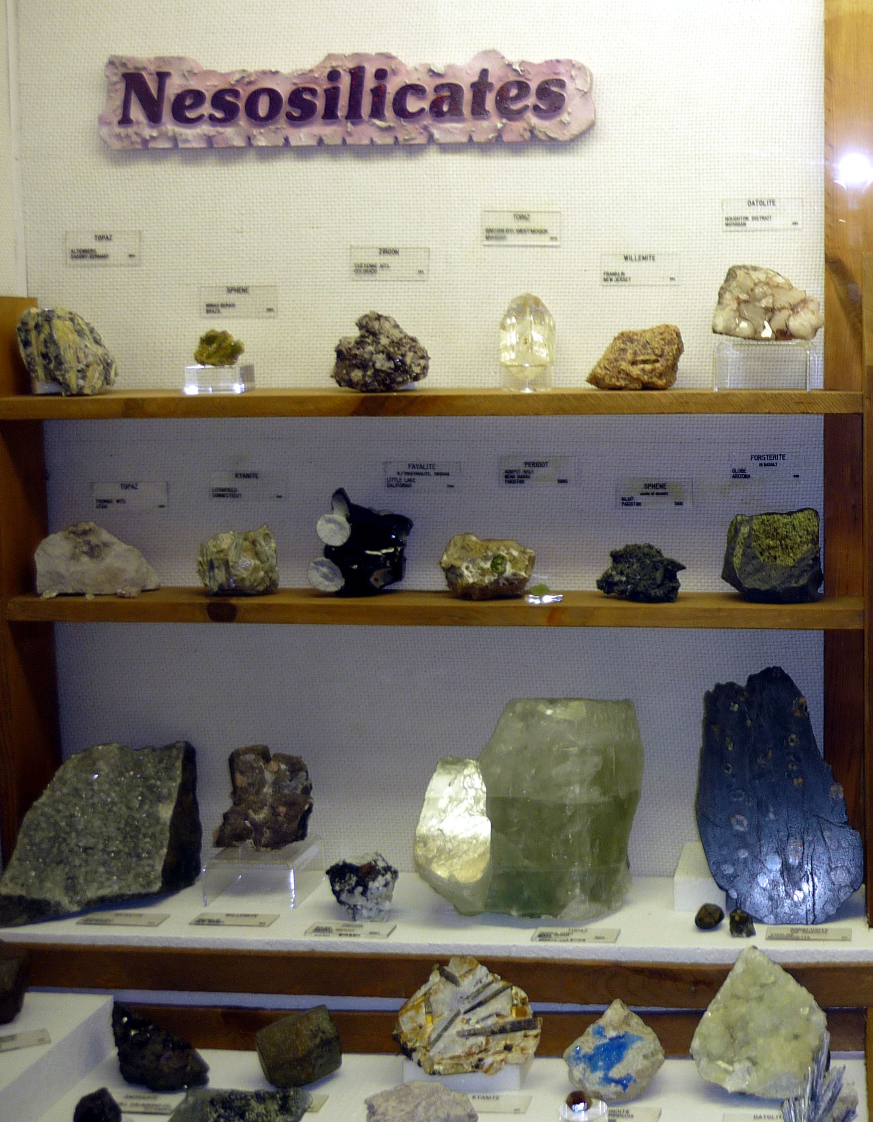 Nesosilicates exhibit, Museum of Geology, South Dakota